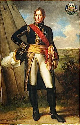 Portrait (Ney, Michel. Man. Marshal of France. Duke of Elchingen. Prince of Moscow. Standing. 3/4. Trimmings (on uniform, weapons, sword.